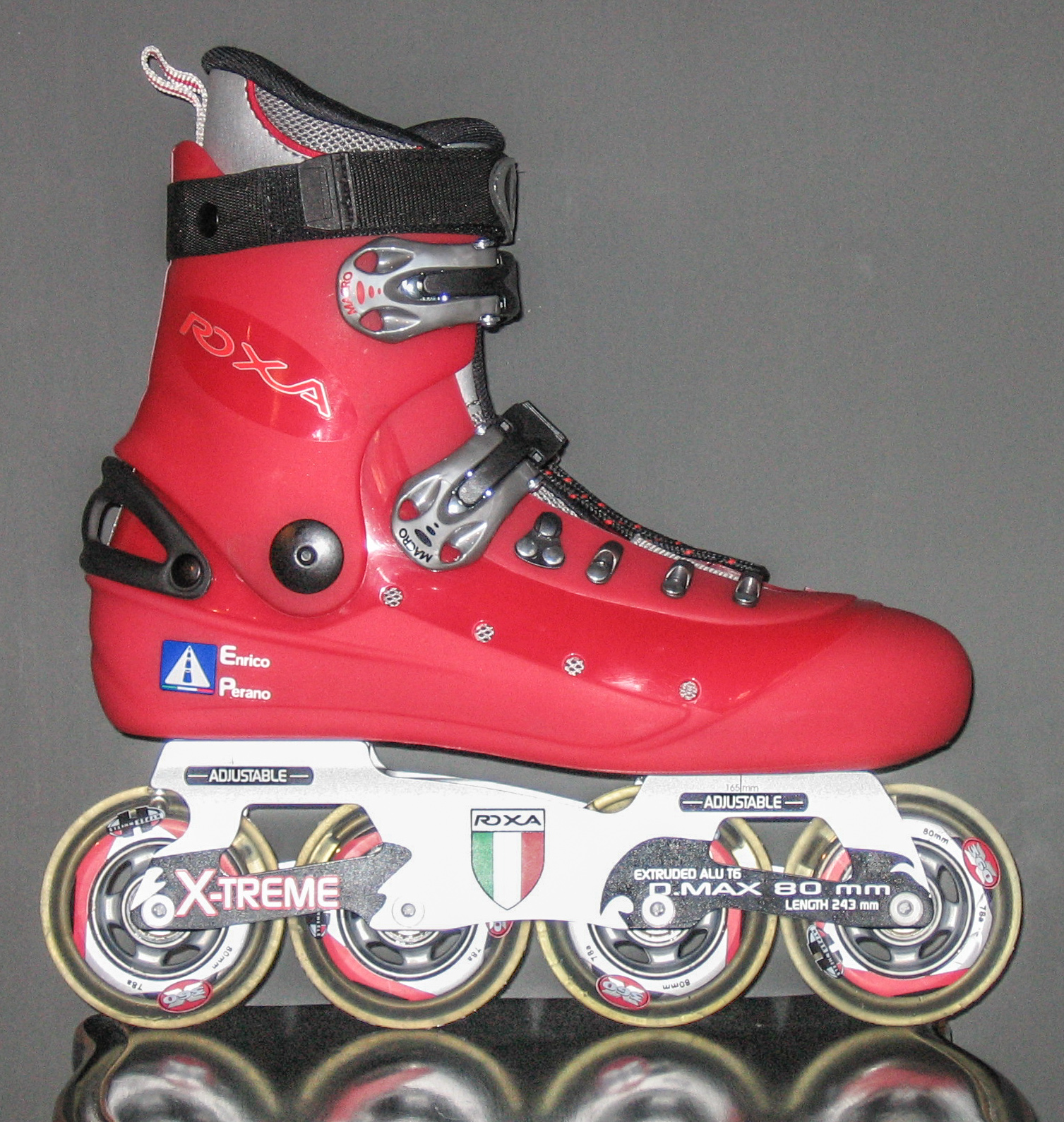 Roxa Xtreme Skate